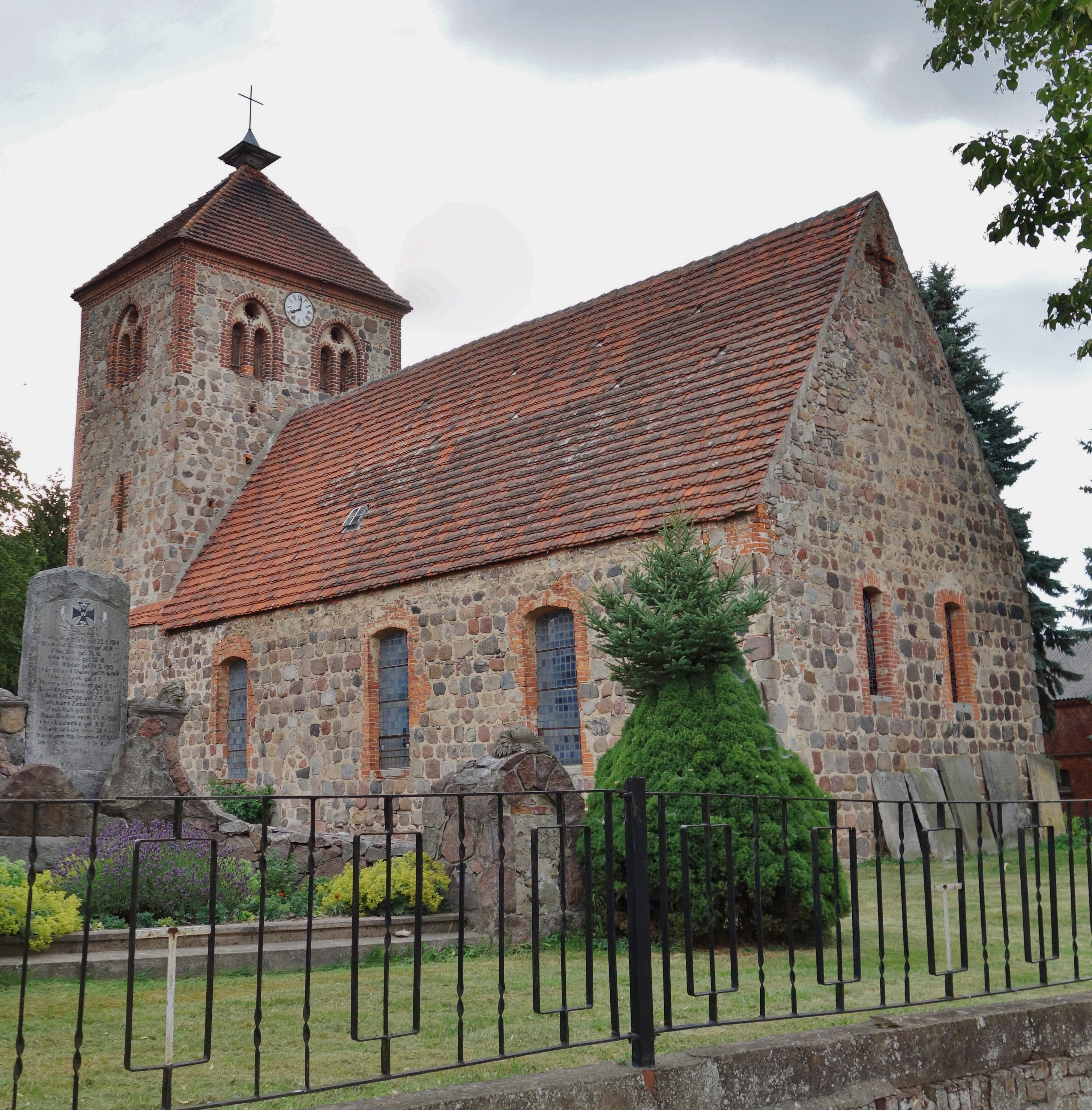 South-eastern view of church in Lindenberg, Groß Pankow municipality, Prignitz district, Brandenburg state, Germany